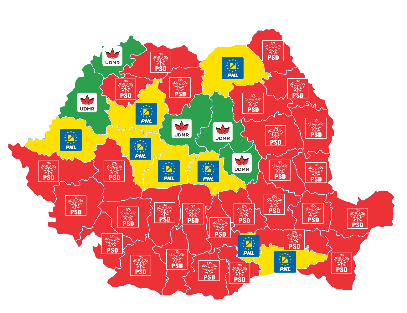 Local romanian elections 2016, political colors of county leaders.